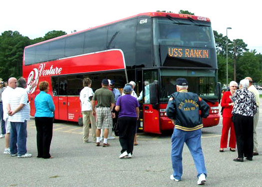 USS Rankin Association reunion, Little Creek, 2009